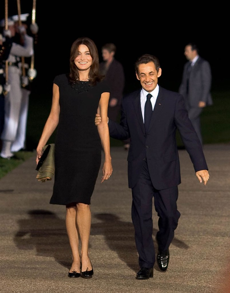 President Nicolas Sarkozy of France and his wife, Carla Bruni Sarkozy, prior to the summit dinner at the Phipps Conservatory and Botanical Gardens in Pittsburgh, Pa., Sept. 24, 2009